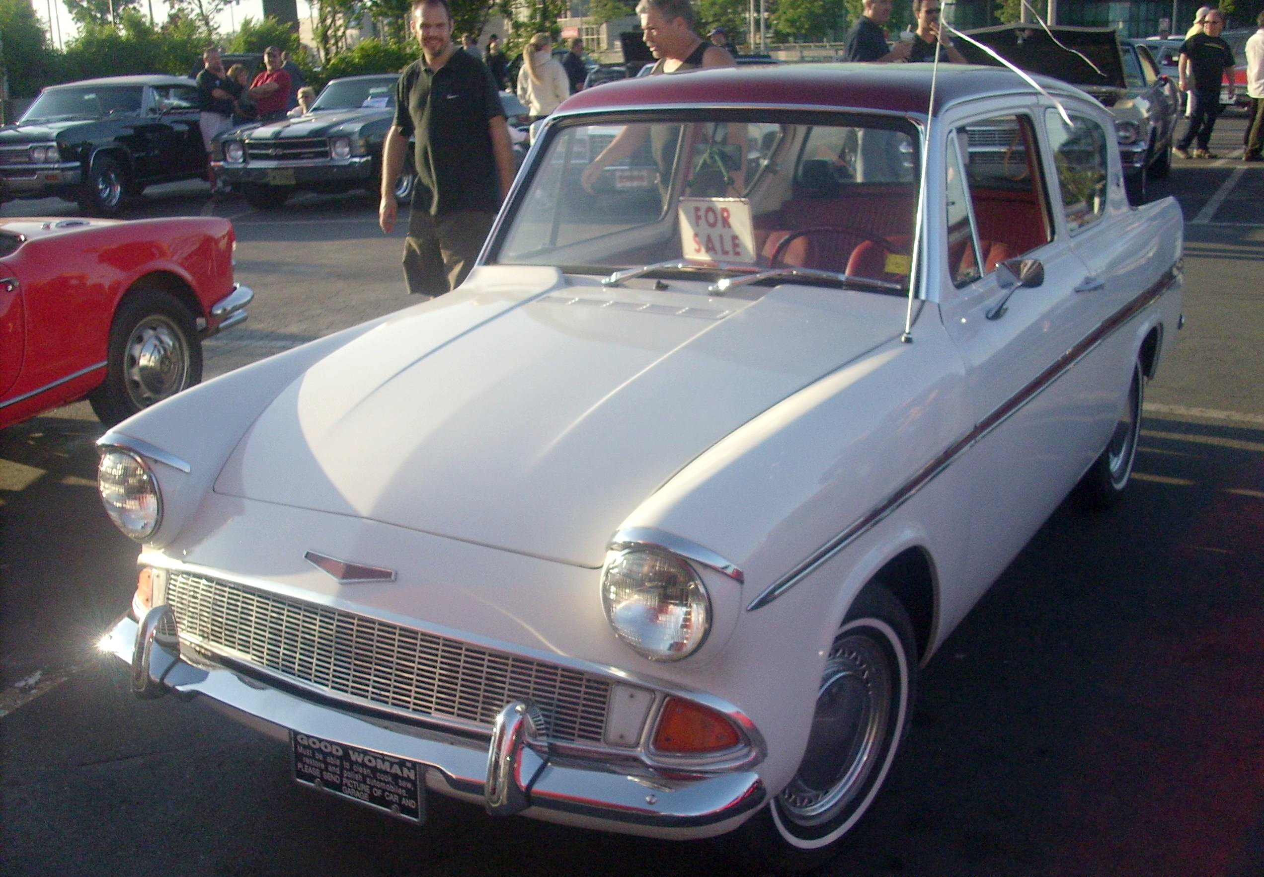 1965 Ford Anglia photographed in Montreal, Quebec, Canada at Gibeau Orange Julep.